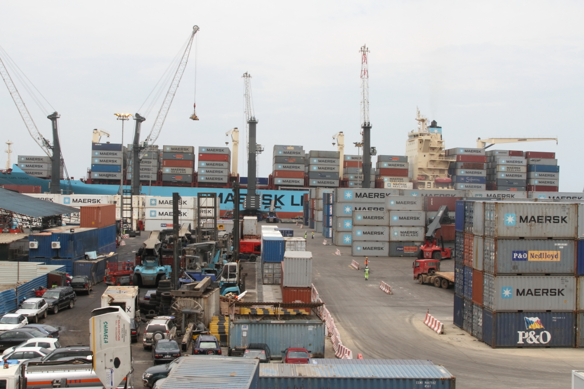 On 14 September, the Maersk Cape Coast arrived in Luanda, Angola. With her 249 Meters and a capacity of 4,500 TEU, the Maersk Cape Coast is the biggest container vessel ever to berth at an Angola port.